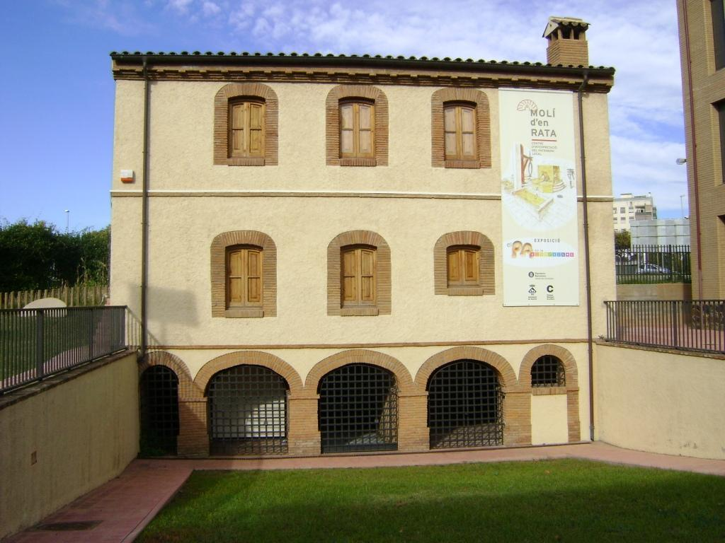 Façade of Molí d'en Rata flour mill